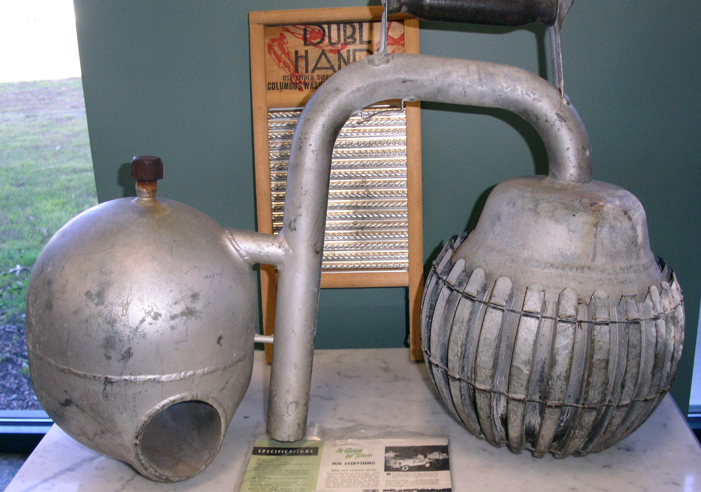 Crosley Icy ball front. IcyBall was a name given to two early refrigerators